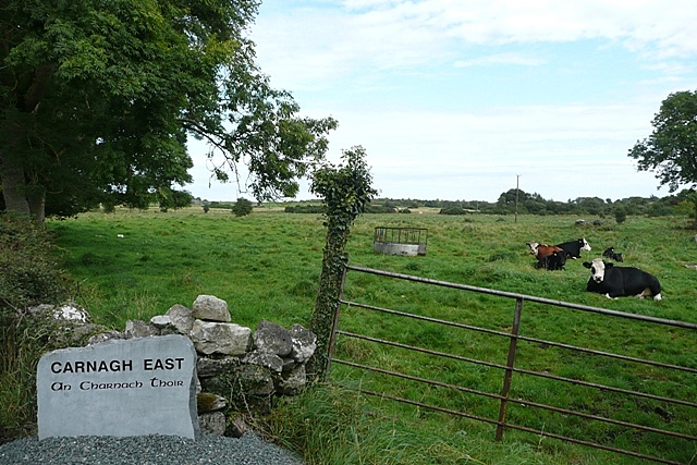 Pasture at Carnagh East Many villages have attractive "home-made" signs like this one.